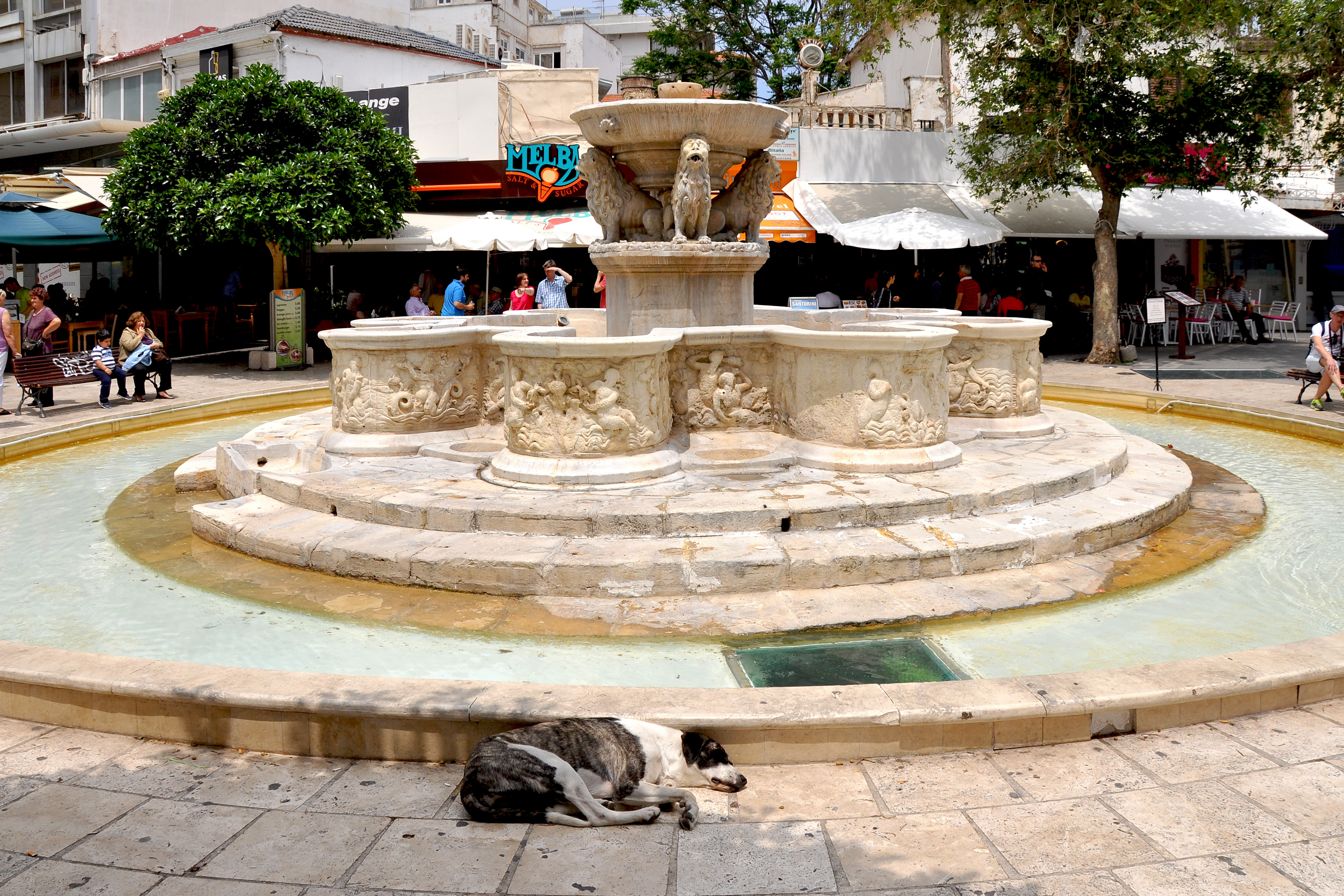 Morosini Fountain in Heraklion on the Crete island in Greece.